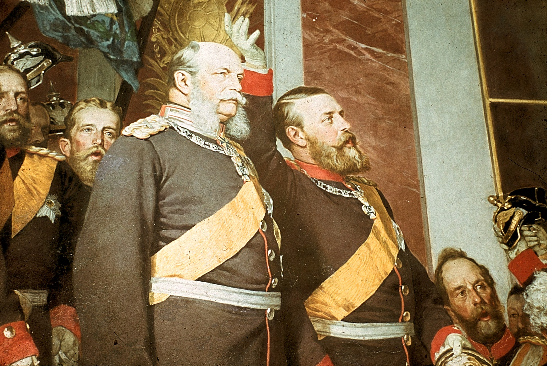 Crowning of Wilhelm I to Emperor of Germany, in Versailles, by Anton von Werner, second version for the Ruhmeshalle Berlin. Destroyed in WW 2 (as the first version too). Do not confuse with the third version of 1885, a birthday present for Bismarck with some differences. Detail (Third, commonly known version)